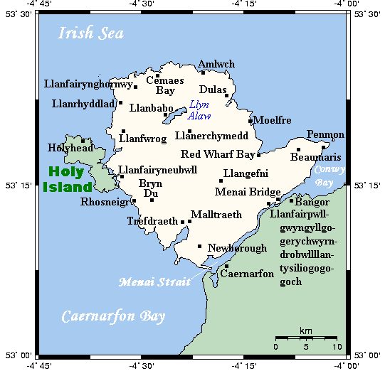 A map showing the Isle of Anglesey/Ynys Môn and nearby areas. This map's source is here, with the uploader's modifications, and the GMT homepage says that the tools are released under the GNU General Public License.